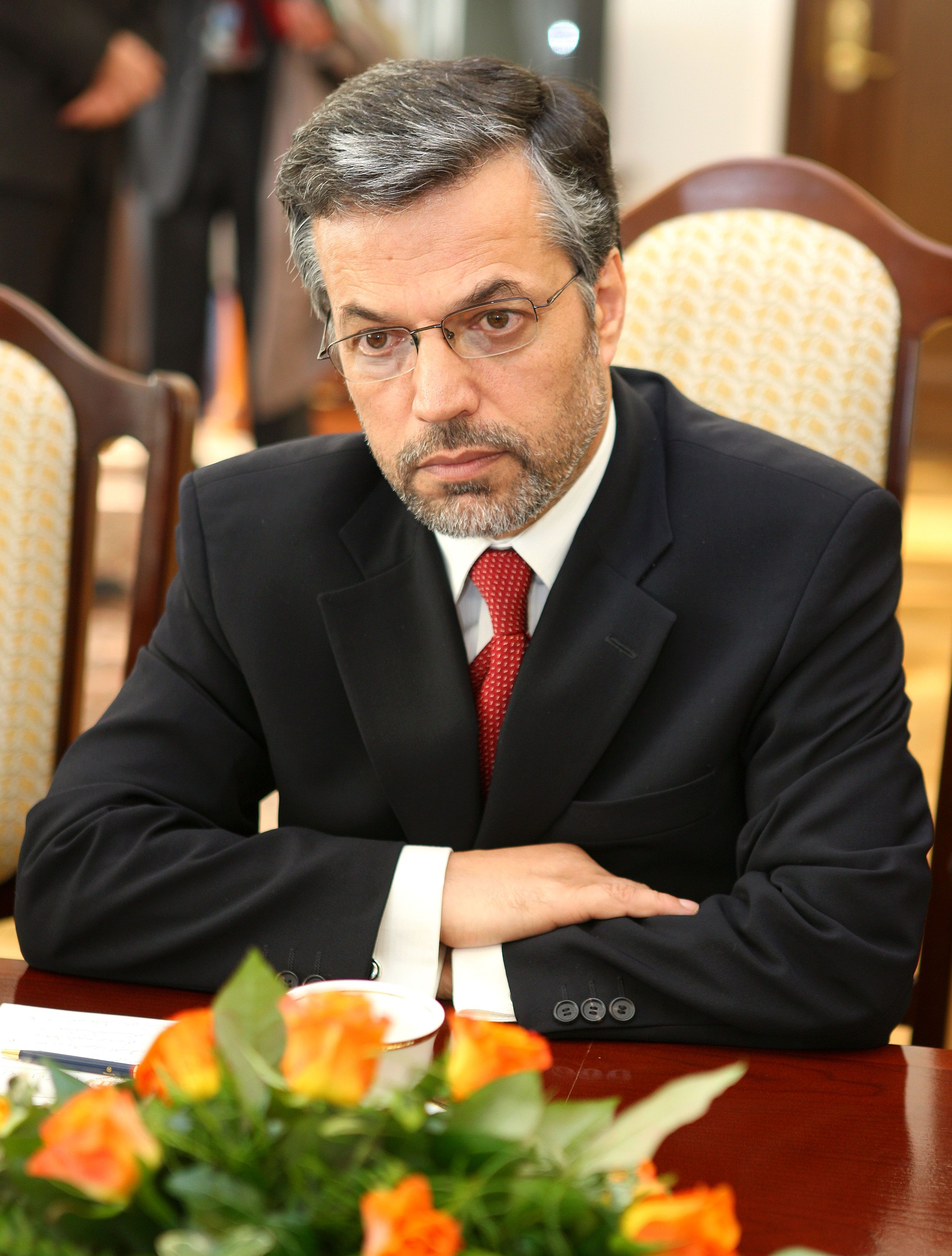 Speaker of the House of the Representatives of Afghanistan Mohammad Younis Qanooni in the Polish Senate